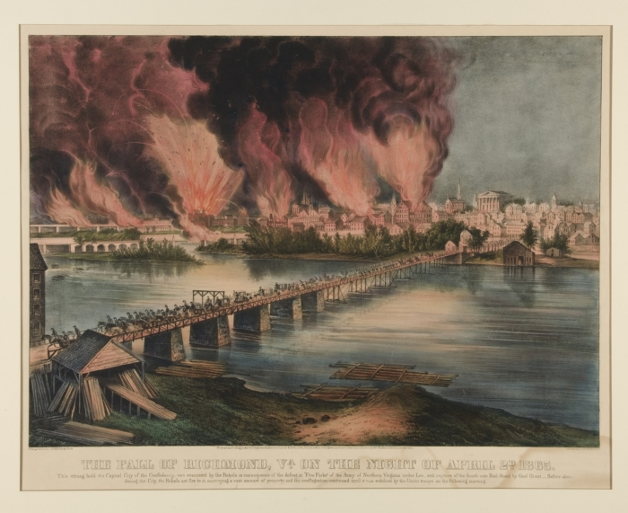 "The Fall of Richmond, Virginia, on the Night of April 2nd 1865," lithograph by Currier & Ives (active 1834-1907). 16 in. x 22 1/4 in. Courtesy of the Mabel Brady Garvan Collection, Yale University Art Gallery, Yale University, New Haven, Conn.